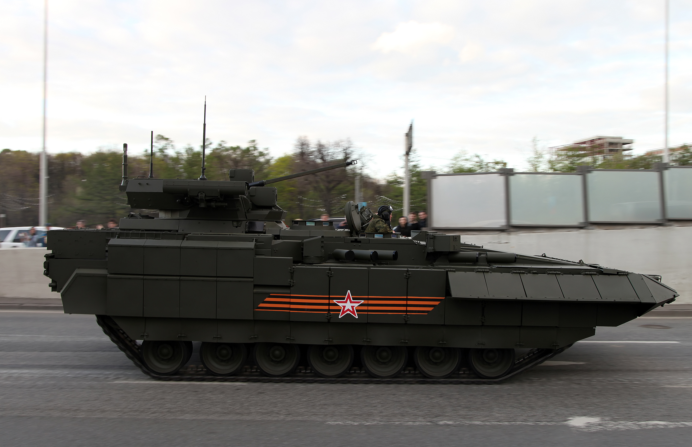 Heavy IFV T-15 object 149 Armata